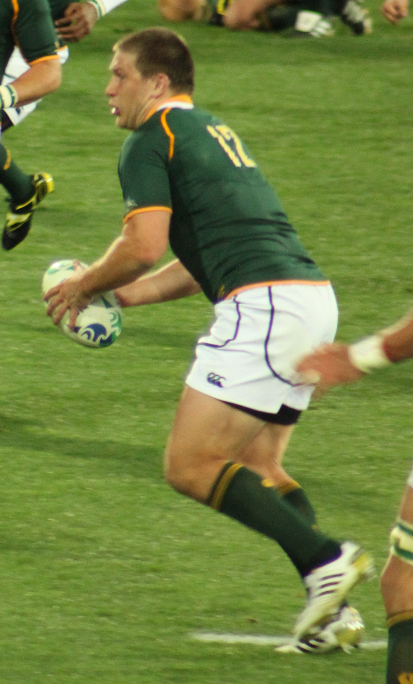 Match between South Africa and Fiji during 2011 Rugby World Cup in New Zealand.